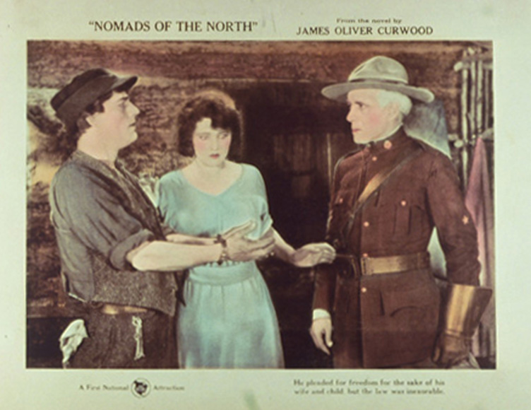 Nomads of the North poster